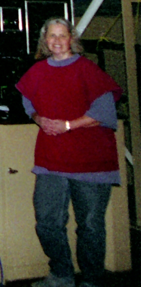 This is a modified and enhanced (edge enhance +20%, contrast enhance +15%, and R -20%) cropped version of Image:P48 1994 Jean Large.jpg. That image is a picture of astronomer Jean Mueller taken by Michael Vergara. It was taken at the Palomar Observatory.